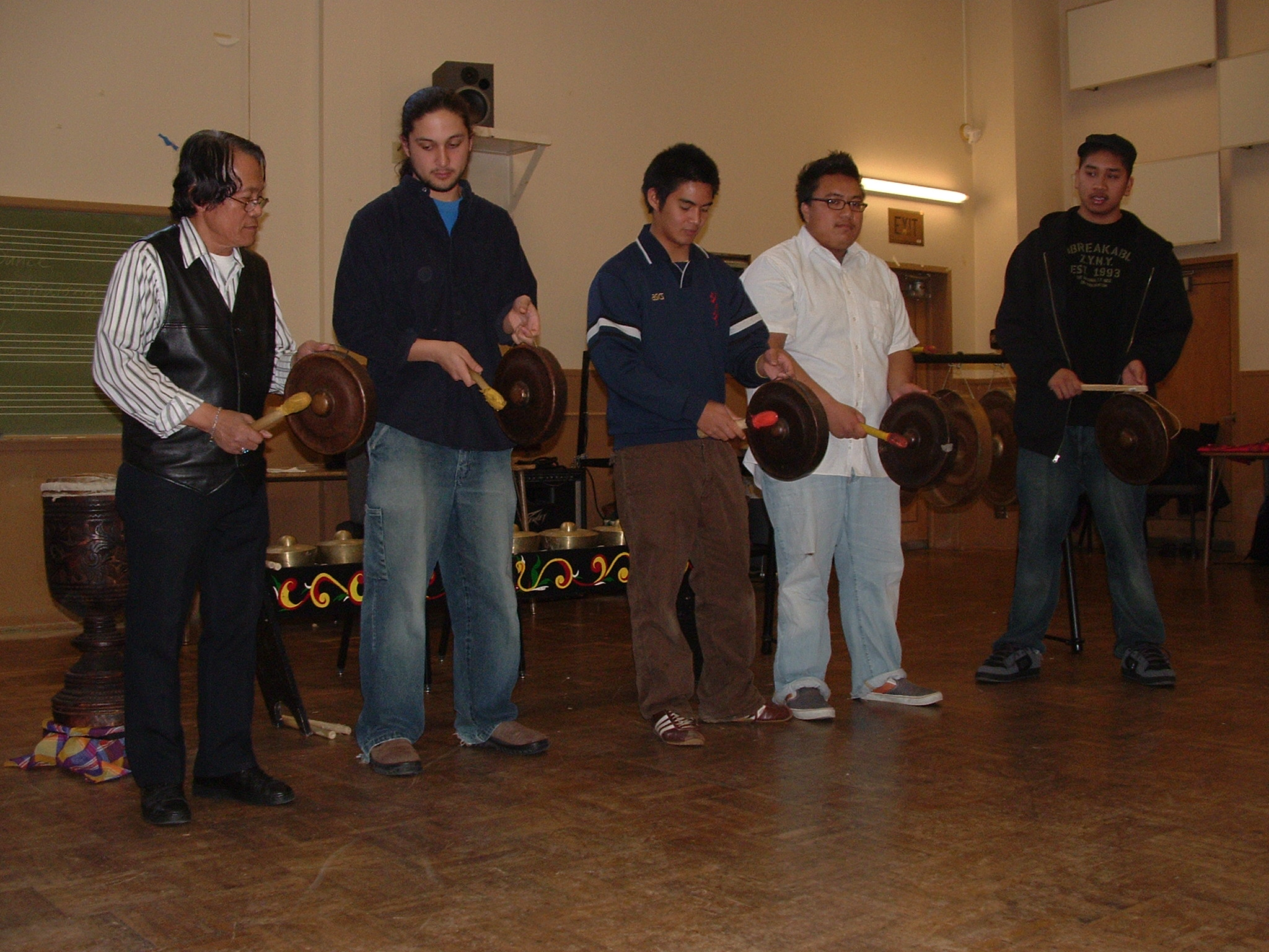 The five Philippine vertically held gongs known as the karatung used in the Tiruray agung ensemble being demonstrated at San Francisco State University by Master Danongan Kalanduyan and his students.